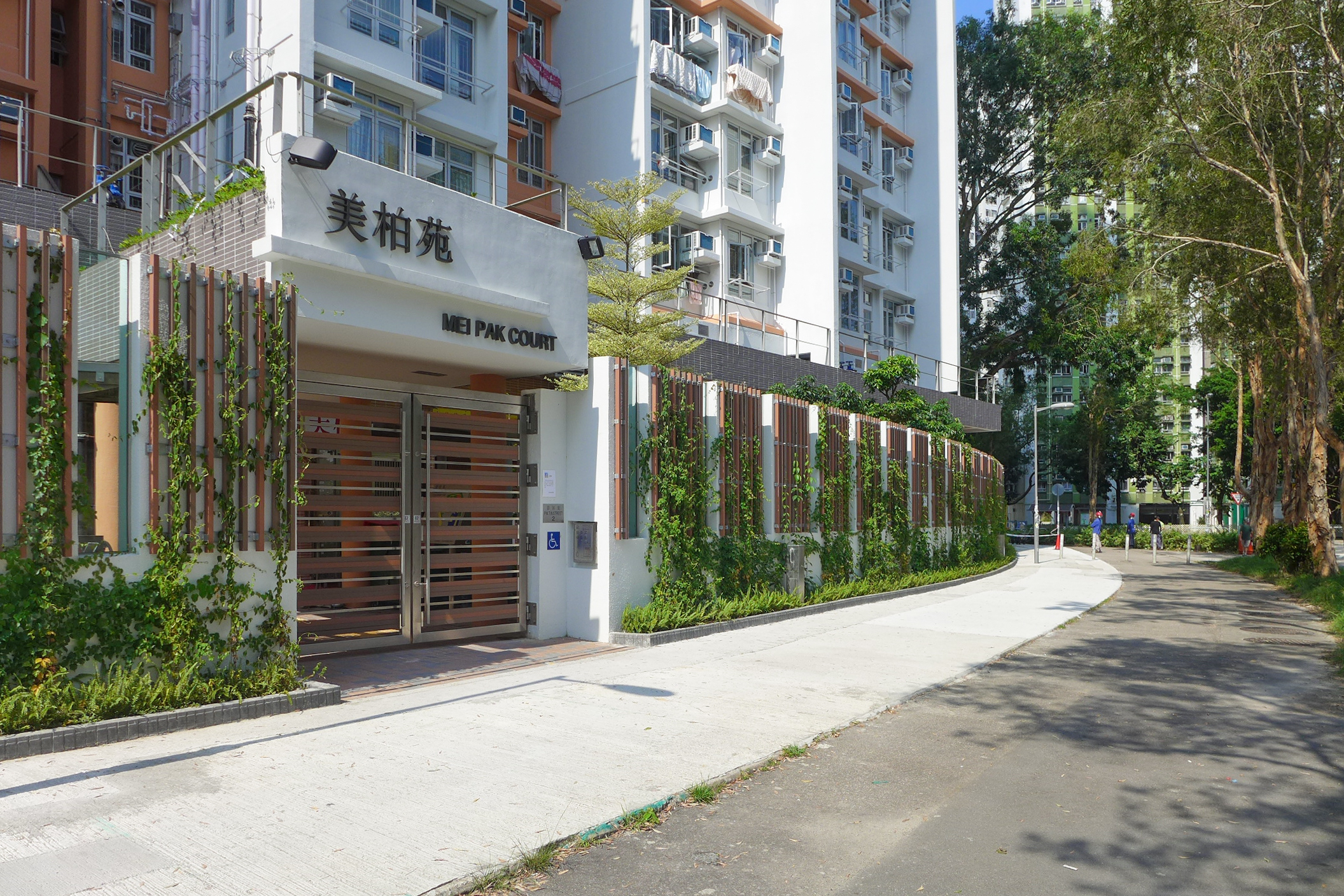 Mei Pak Court Entrance